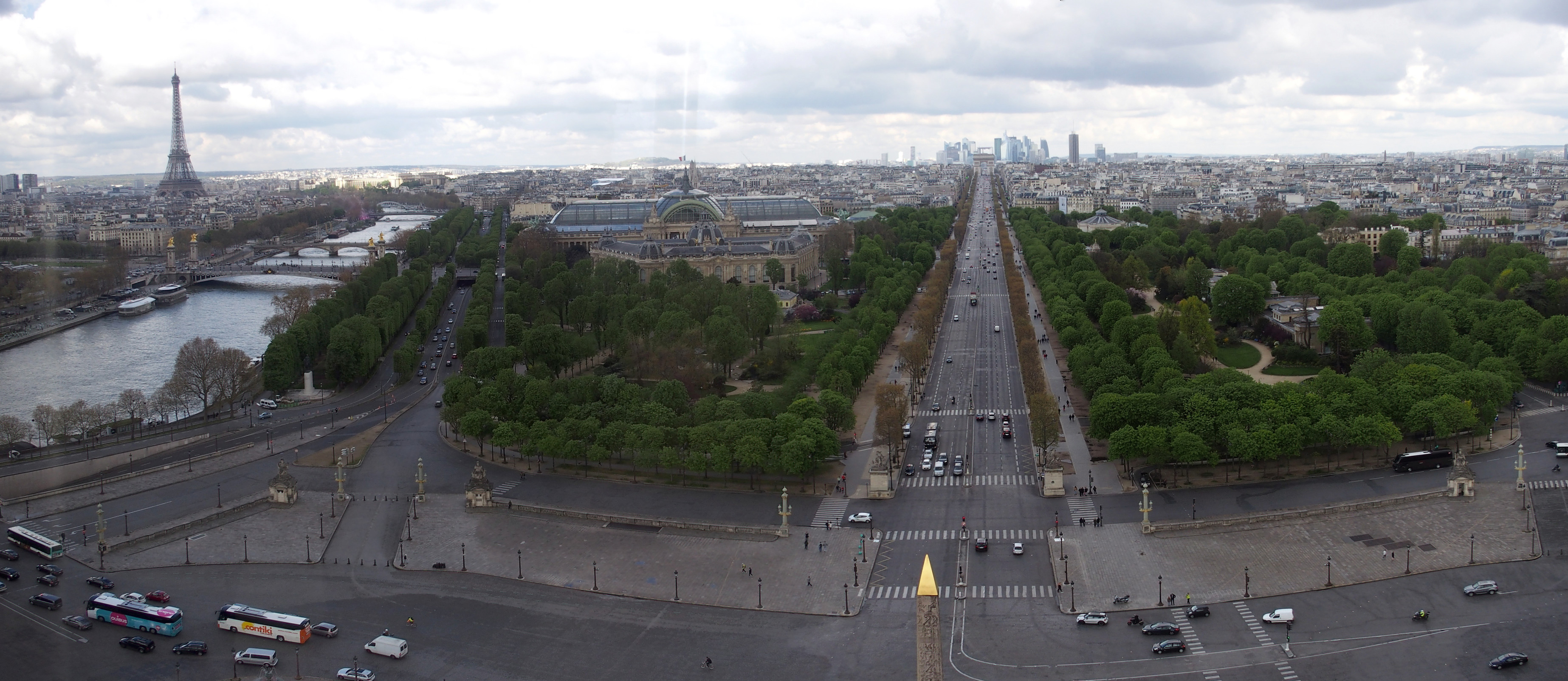 Champs-Élysées avenue in Paris, France. See from top of ferris weel of Concorde place. Panorama.